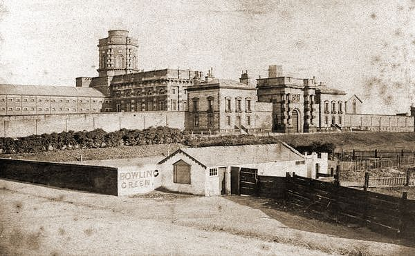 Line drawing of Belle Vue Gaol circa 1870.